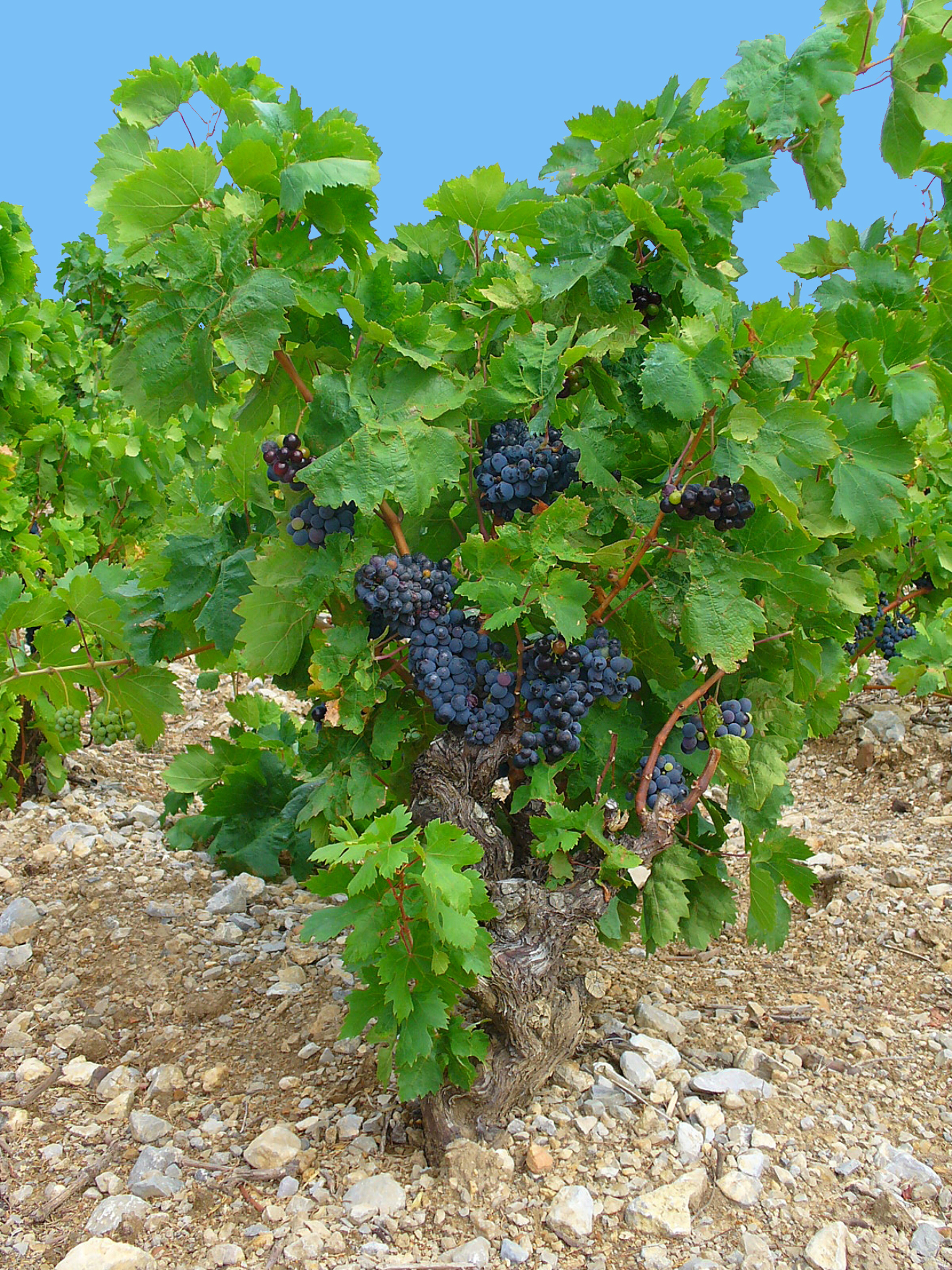 Vitis vinifera, Common Grape Vine, habitus. Les Cabanes de La Palme (Aude, France).